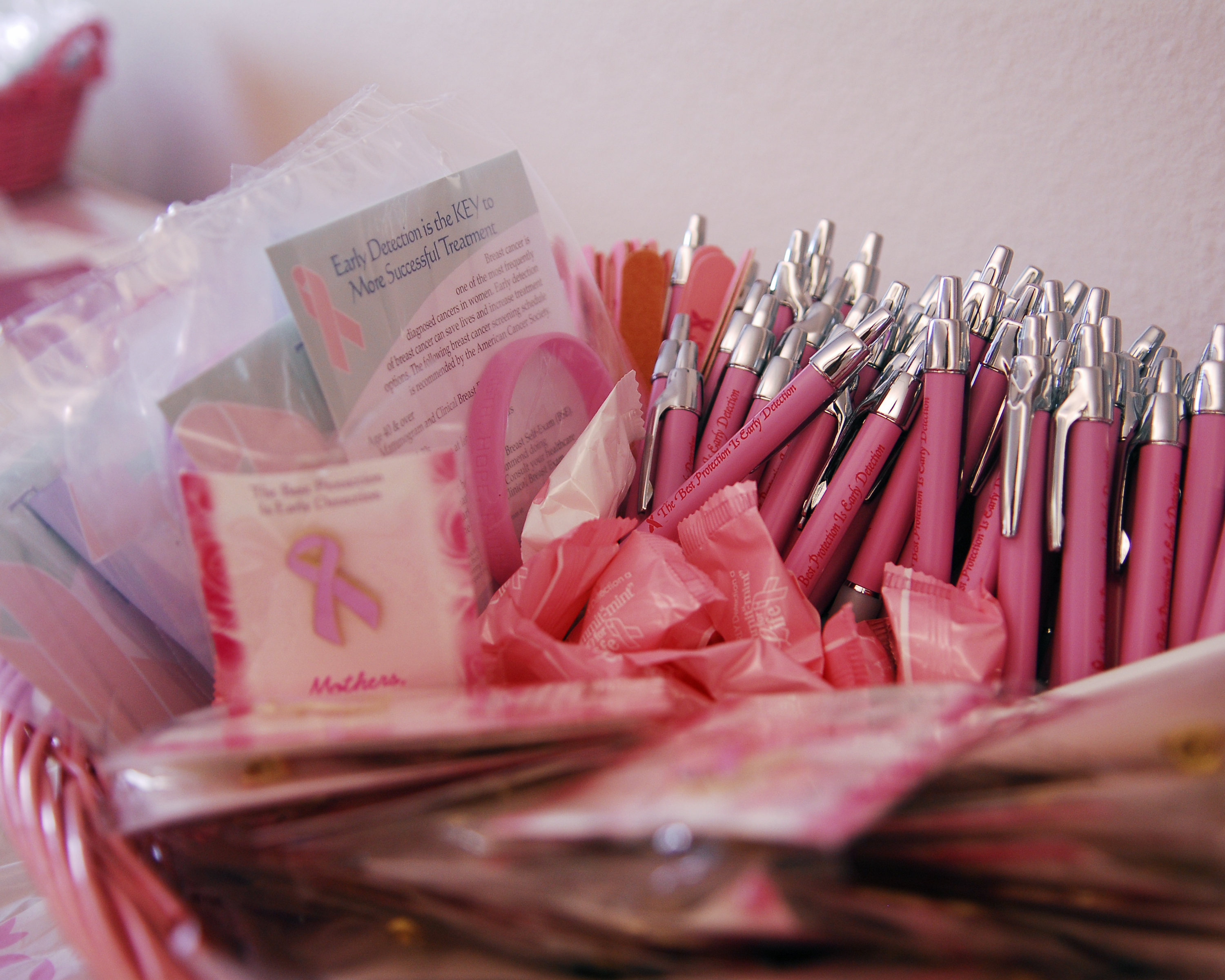 These are some items given away to promote Breast Cancer Awareness during the Breast Cancer Awareness Seminar on Oct. 24 held at Chapel One on Vandenberg AFB. The Breast Cancer Awareness Seminar was created to help educate and inform the population about breast cancer.